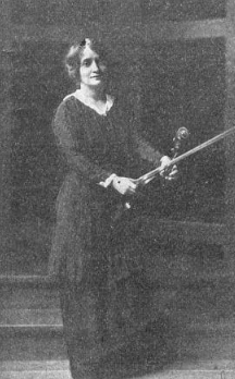 A white woman wearing a long dark dress with a white lace collar, standing, holding a violin.